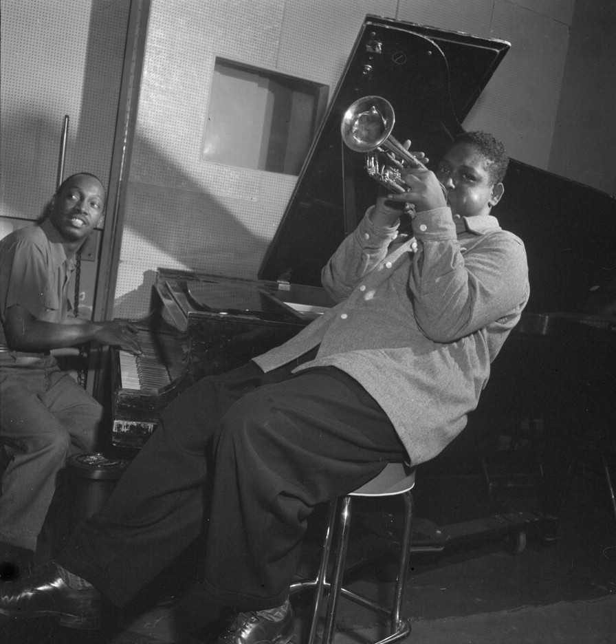 Tadd Dameron and Fats Navarro. Photography by William P. Gottlieb, NYC, between 1946 and 1948.